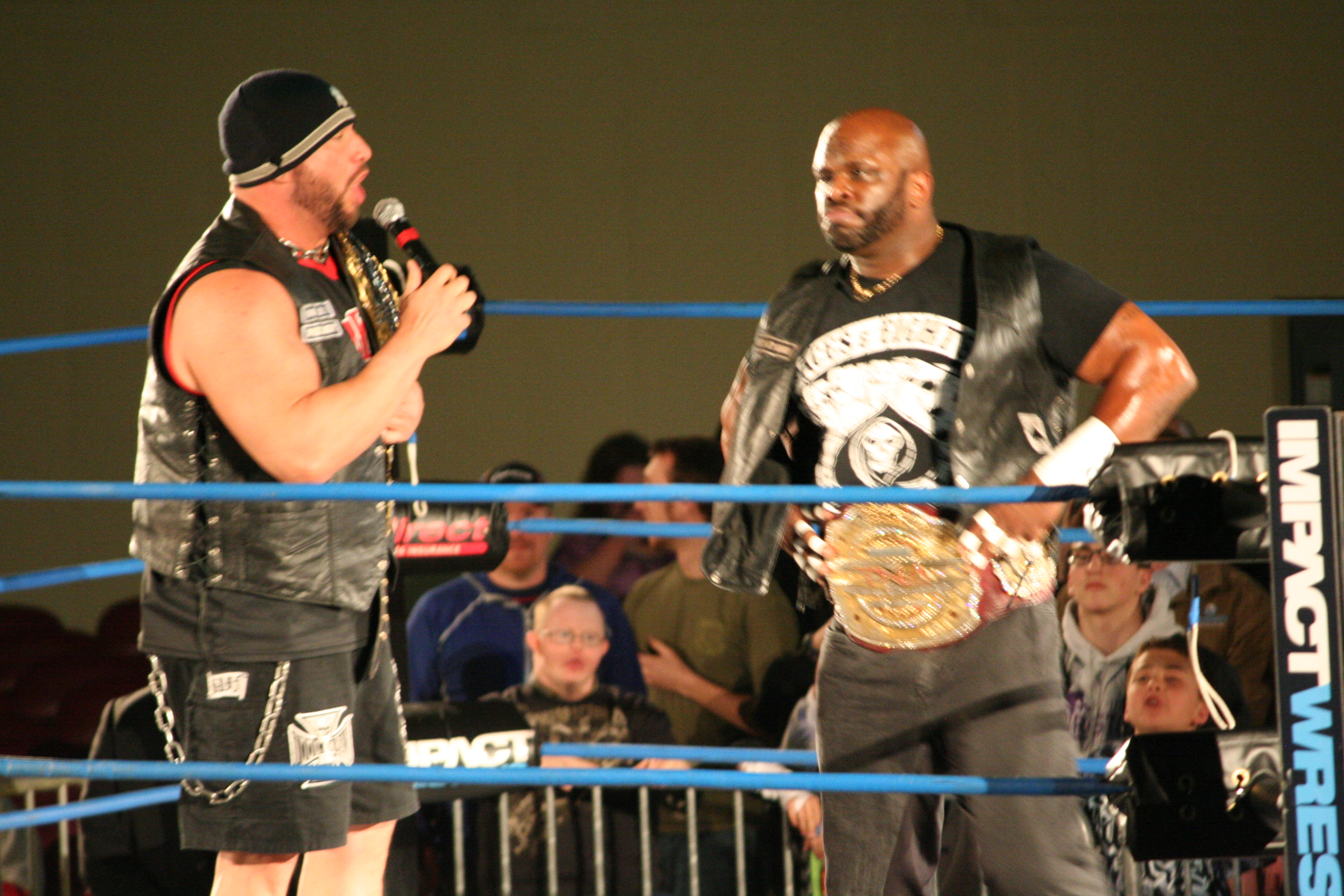 Bully Ray & D Von